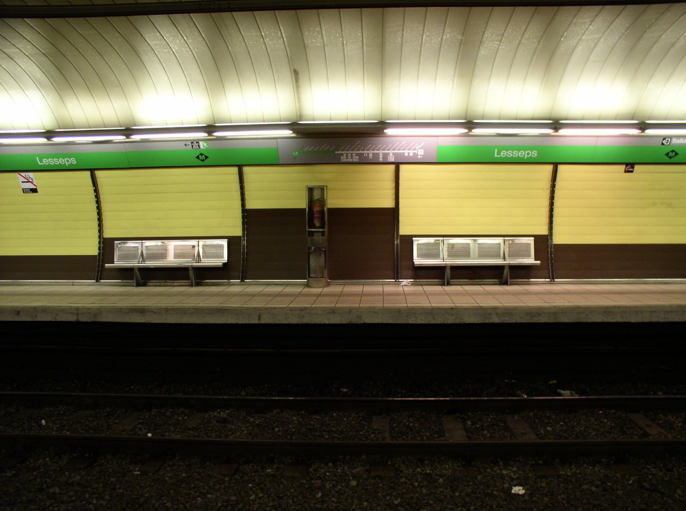 Description: Metro station Lesseps in Barcelona Source: photo taken by me (Baikonur), June 2004 License